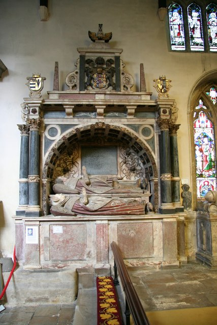 Tomb of Roger Manners, 5th Earl of Rutland (died 1612) and his wife Countess Elizabeth, daughter of Sir Philip Sidney, in St Mary the Virgin parish church, Bottesford, Leicestershire